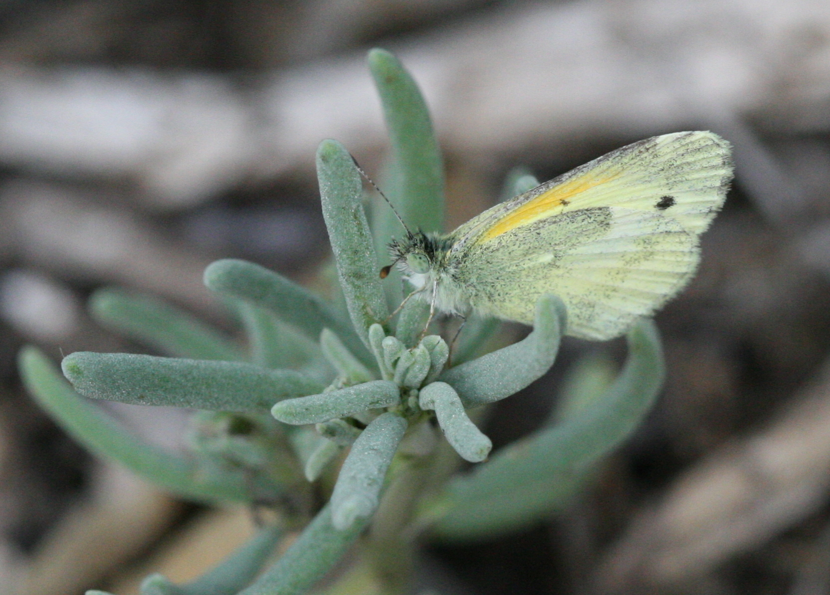 Dainty sulphur